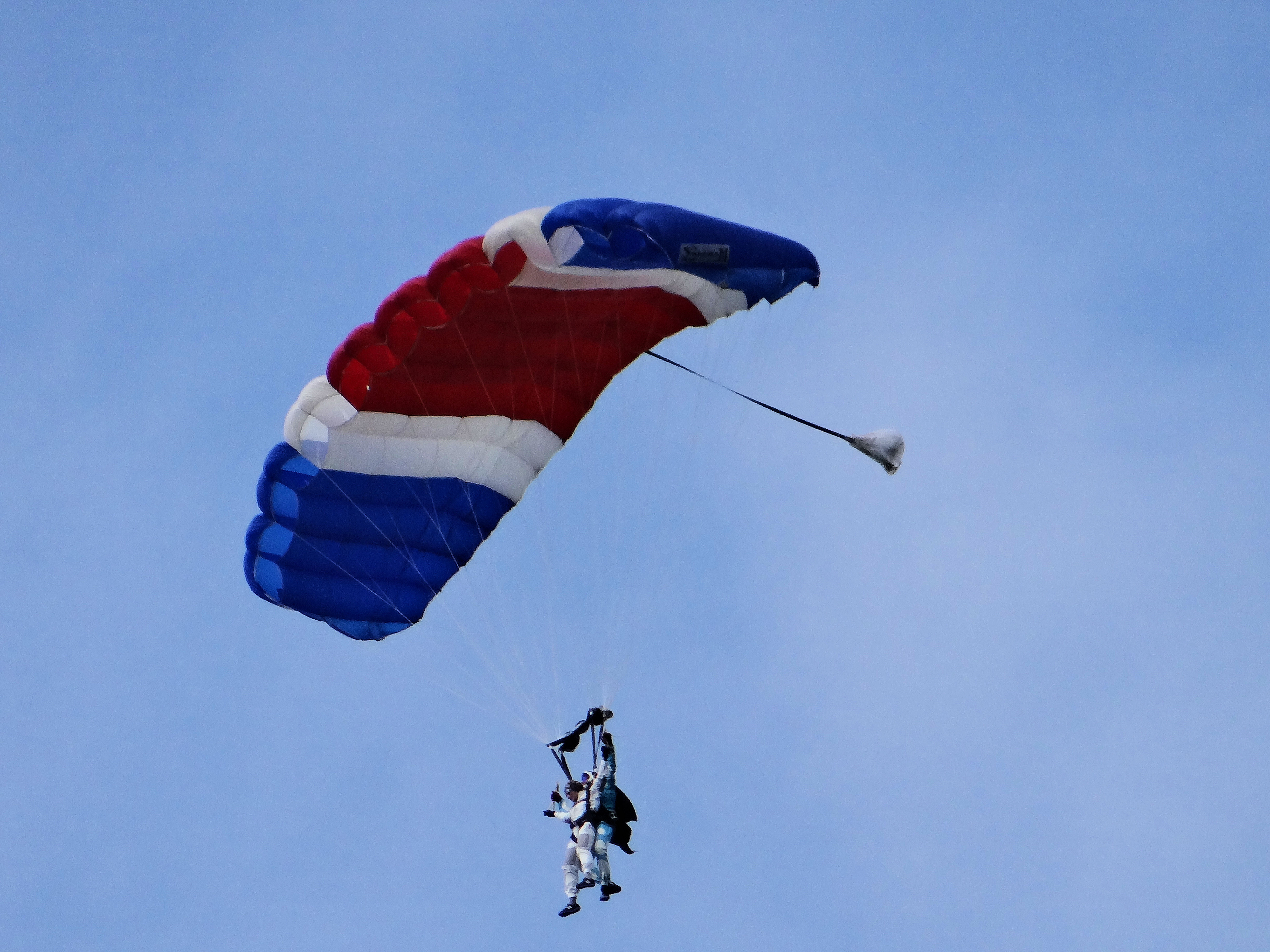 Skydiving in Chrcynno